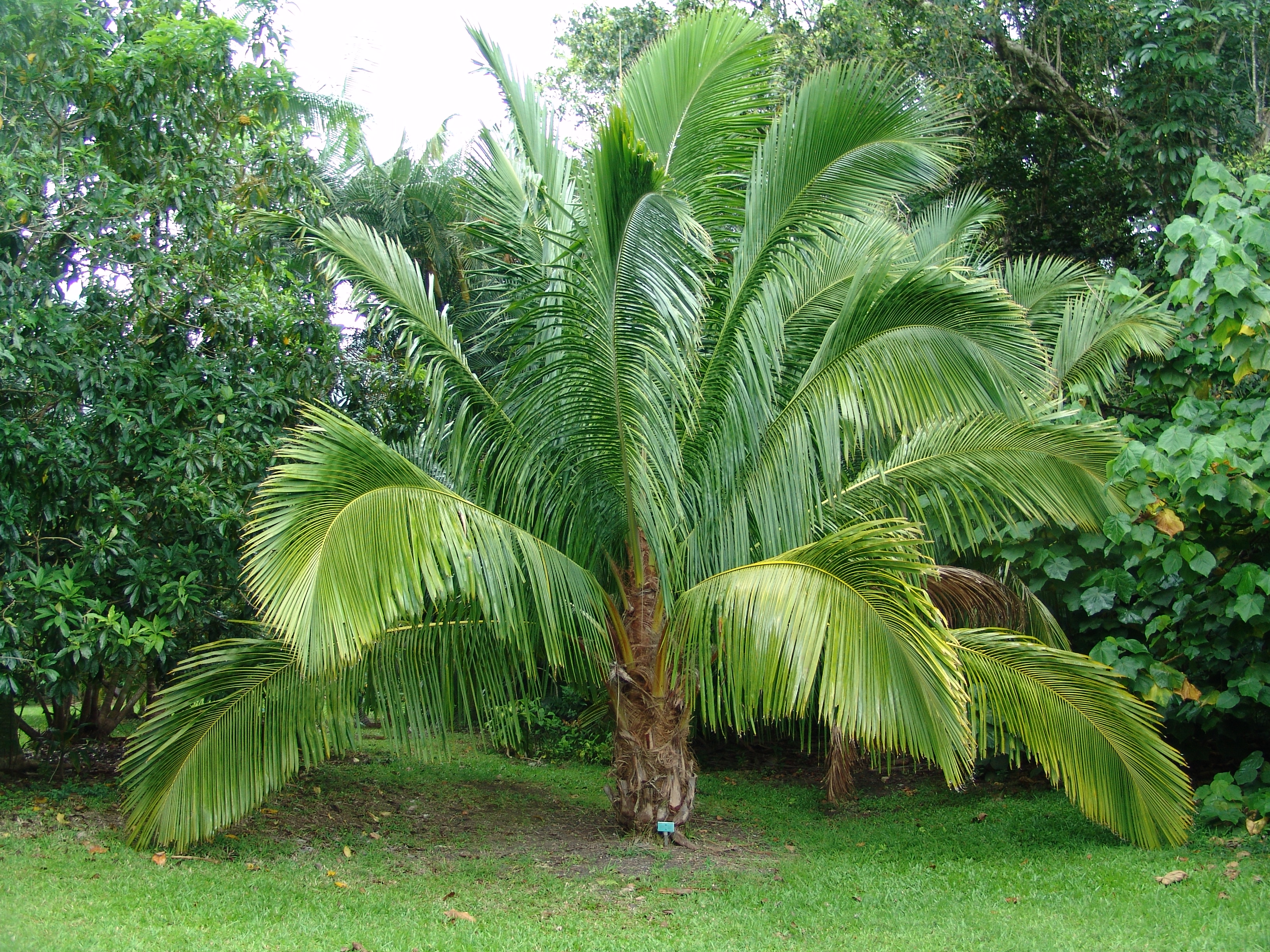 A young Beccariophoenix madagascariensis palm. Cultivated, Ho'omaluhia Botanical Garden Oahu Hawaii